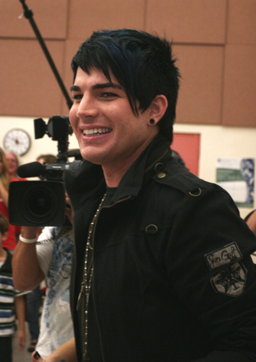 American Idol finalist Adam Lambert at Mt. Carmel High School.